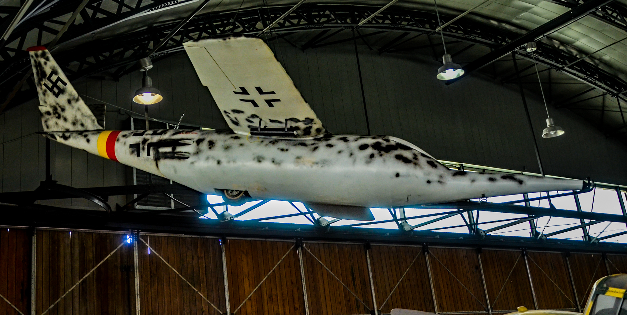 Flying Bazooka or Flying Tank-Fist (1944) Military Aviation Museum Virginia Beach Airport (42VA) Photo: TDelCoro July 21, 2018